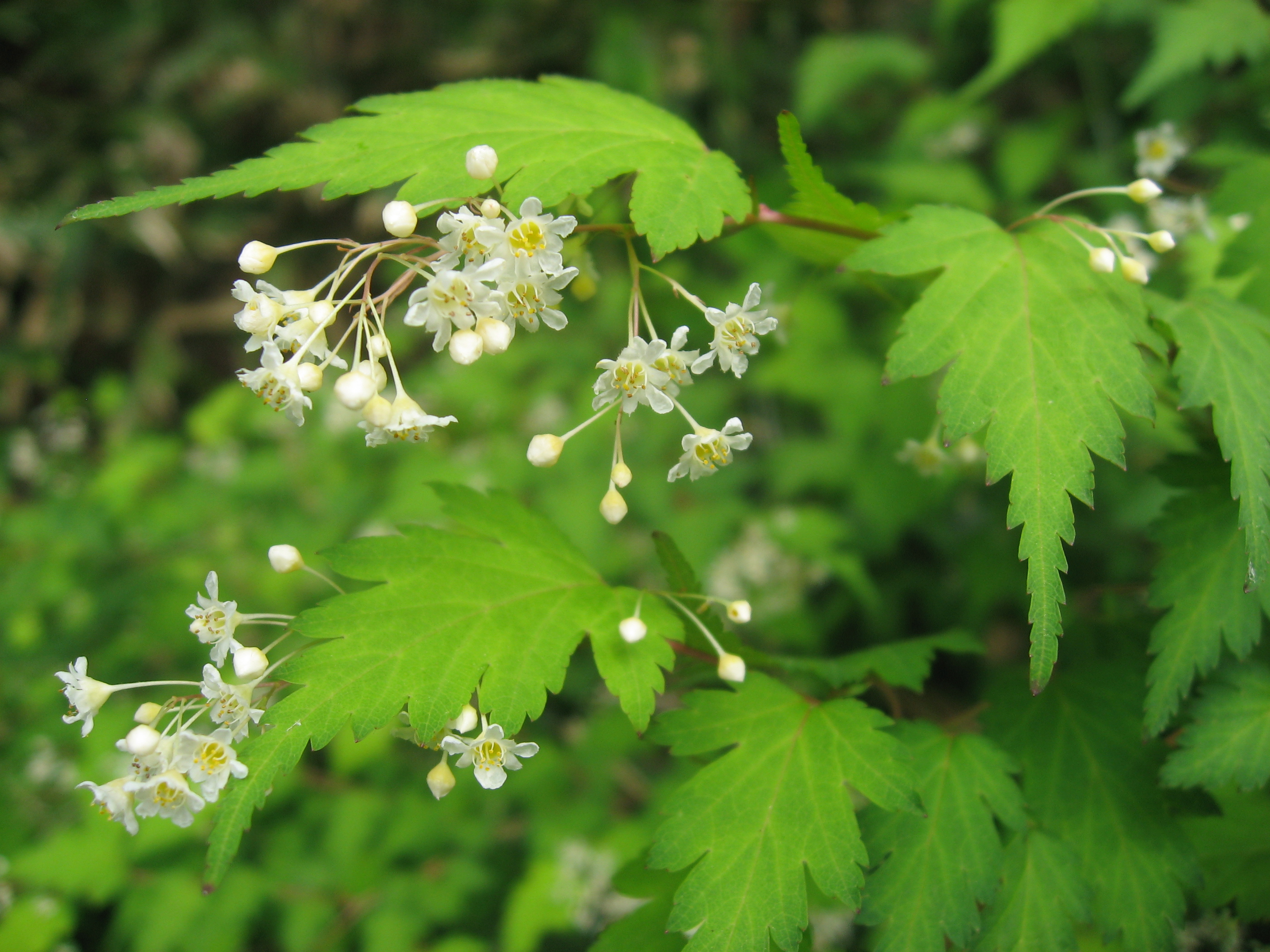 Stephanandra incisa, Aizu area, Fukushima pref., Japan